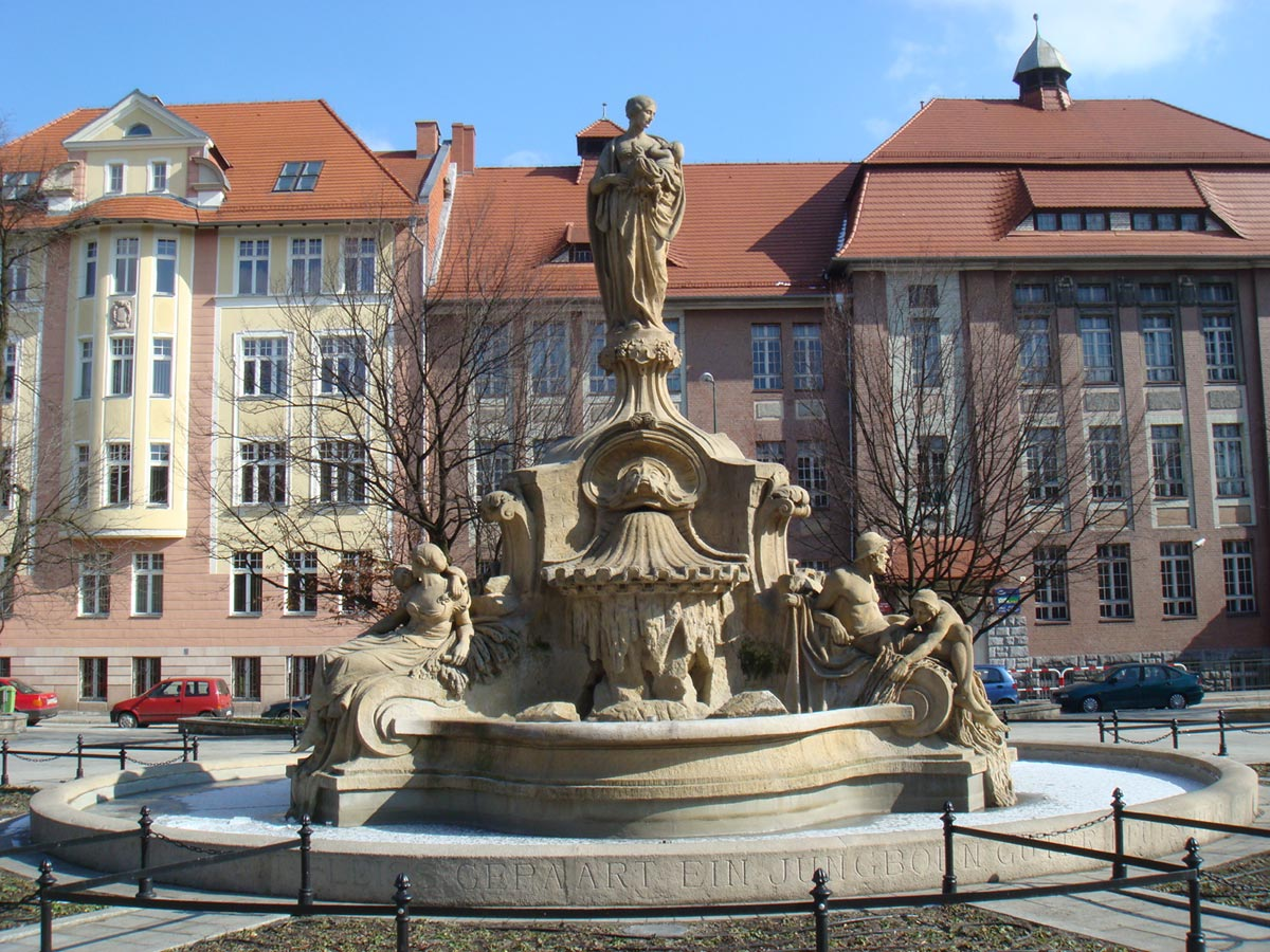 Fountain of Ceres at Daszyński Square in Opole, Poland